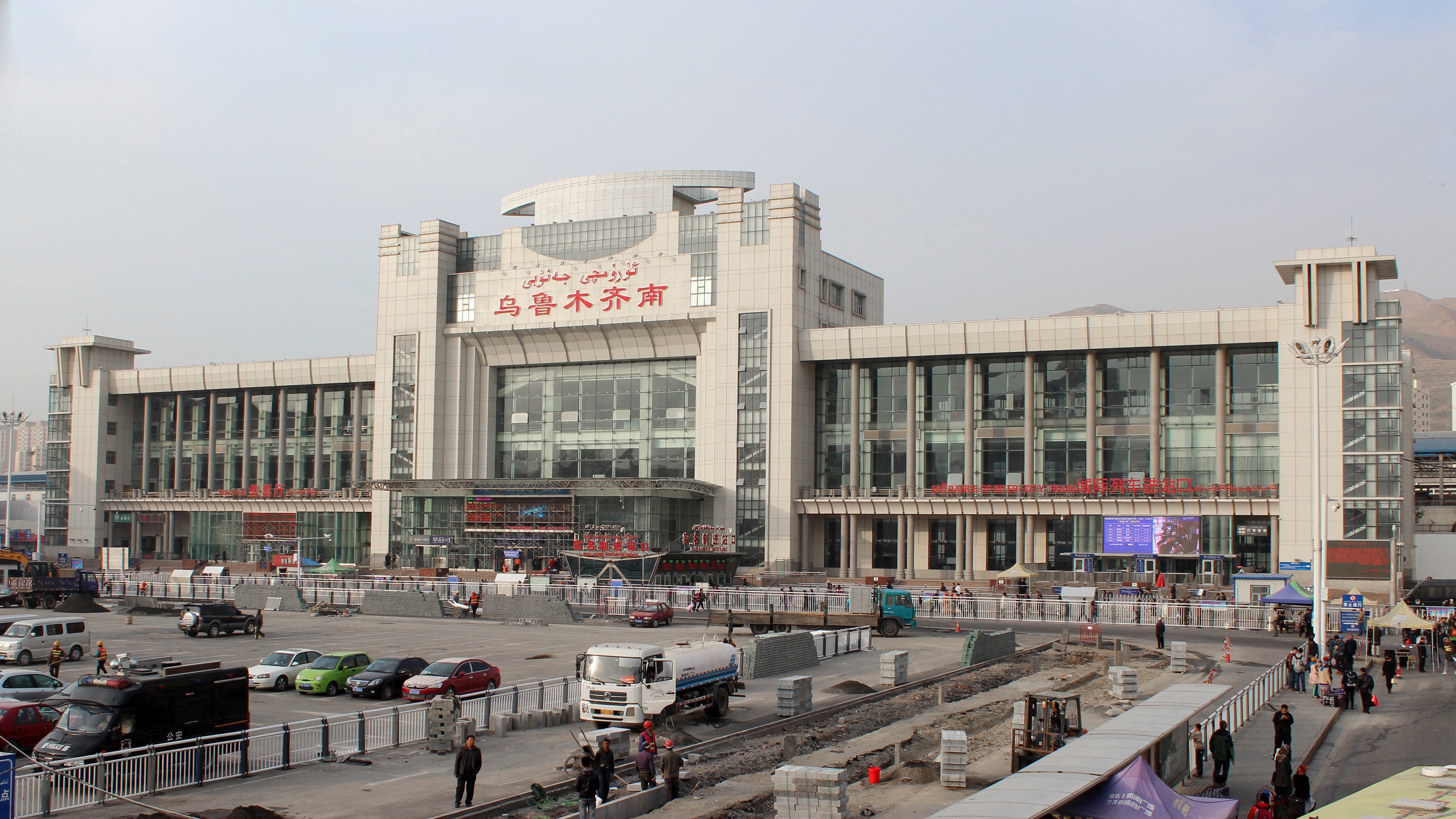 Urumqi South Station, Xinjiang, China.